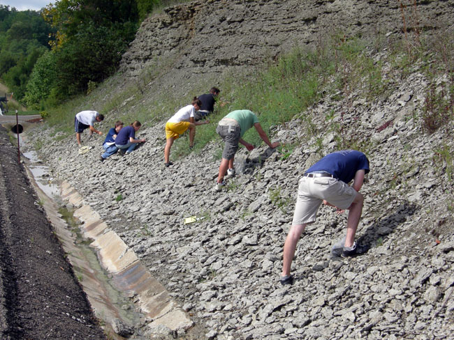 College of Wooster students collecting fossils; Ordovician of Indiana.